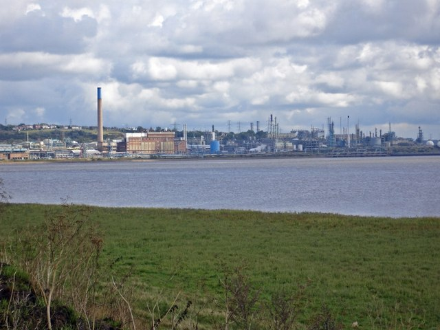 Hale - view from Hale Head. Hale. View across River Mersey from the Mersey Way east of Hale Head. Salt marsh in the foreground, below the low sandy cliffs. Ineos Chlor (former ICI) Castner-Kellner chloralkali works at Runcorn with Runcorn Hill beyond. The lighthouse is some 250m behind the photographer.